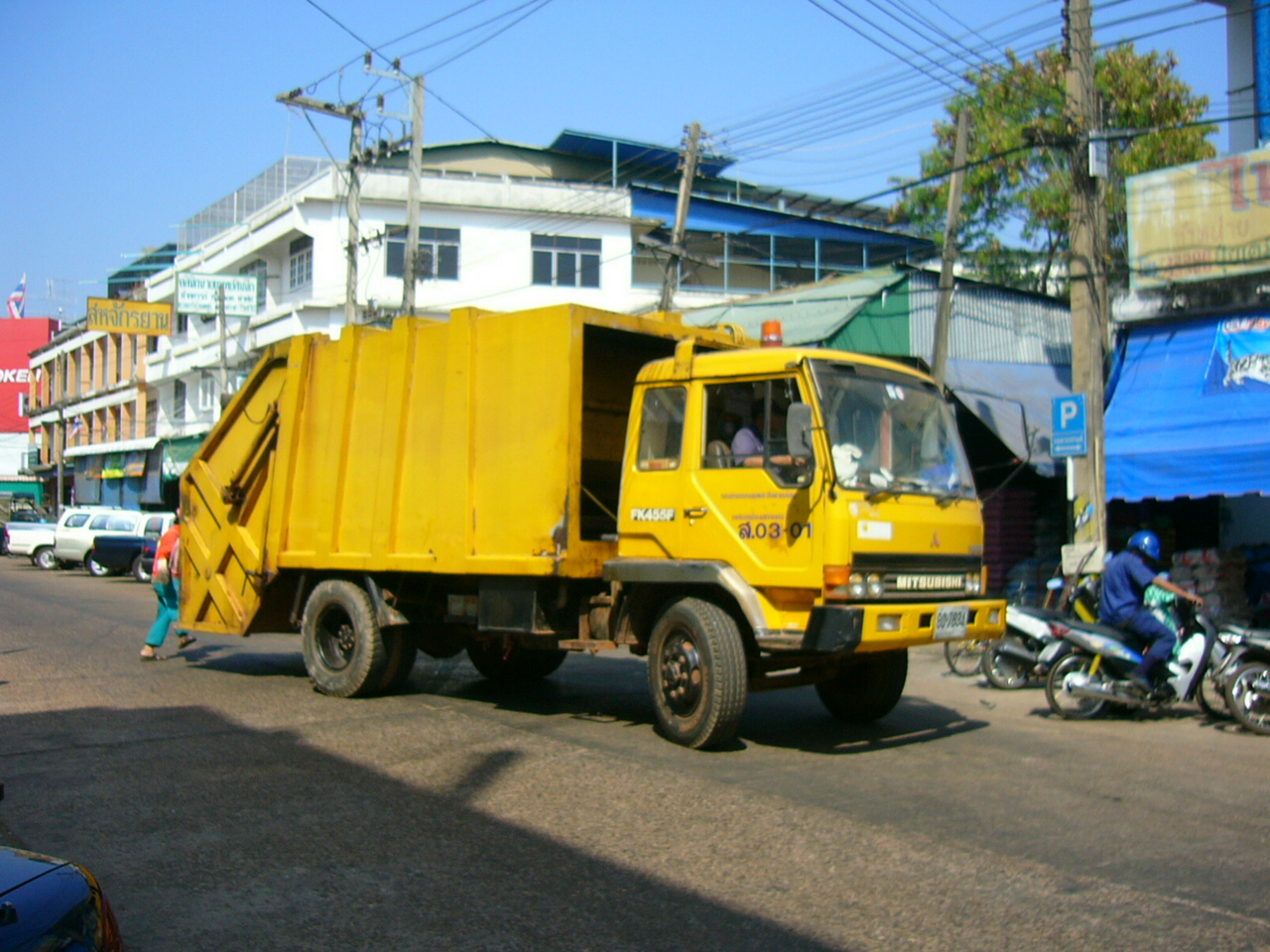 Mitsubishi Fuso Fighter Waste collection vehicle (Rear loader) seen in Sakon Nakhon, Thailand.